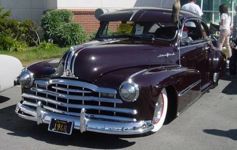 1948 Pontiac Streamliner Sedan Coupe